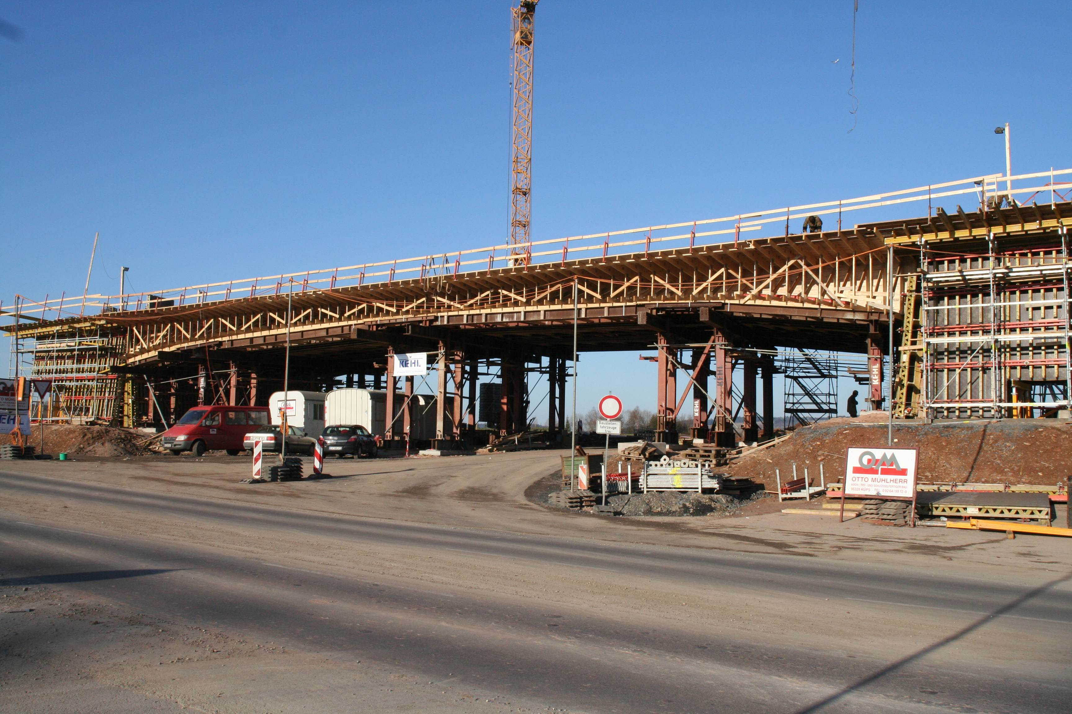 Formwork of a concrete motorway bridge, A73 near Coburg – Rödental.